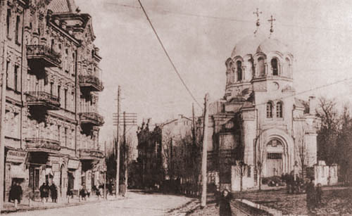 A church in Kyiv. Demolished by the bolsheviks in the 1930-s